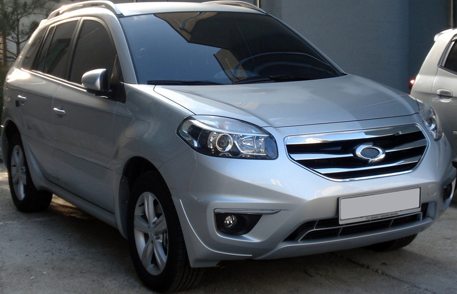 Renault Samsung New QM5